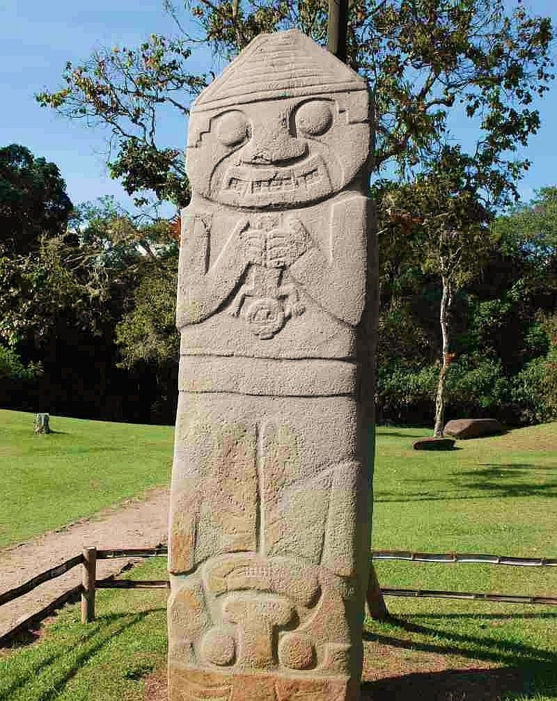 San Agustín Archaeological Park Statue